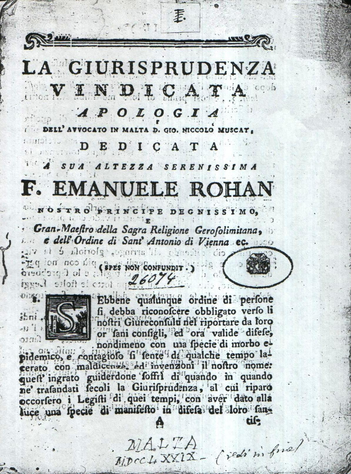 "La Giurisprudenza Vindicata" (1779) of John Nicholas Muscat